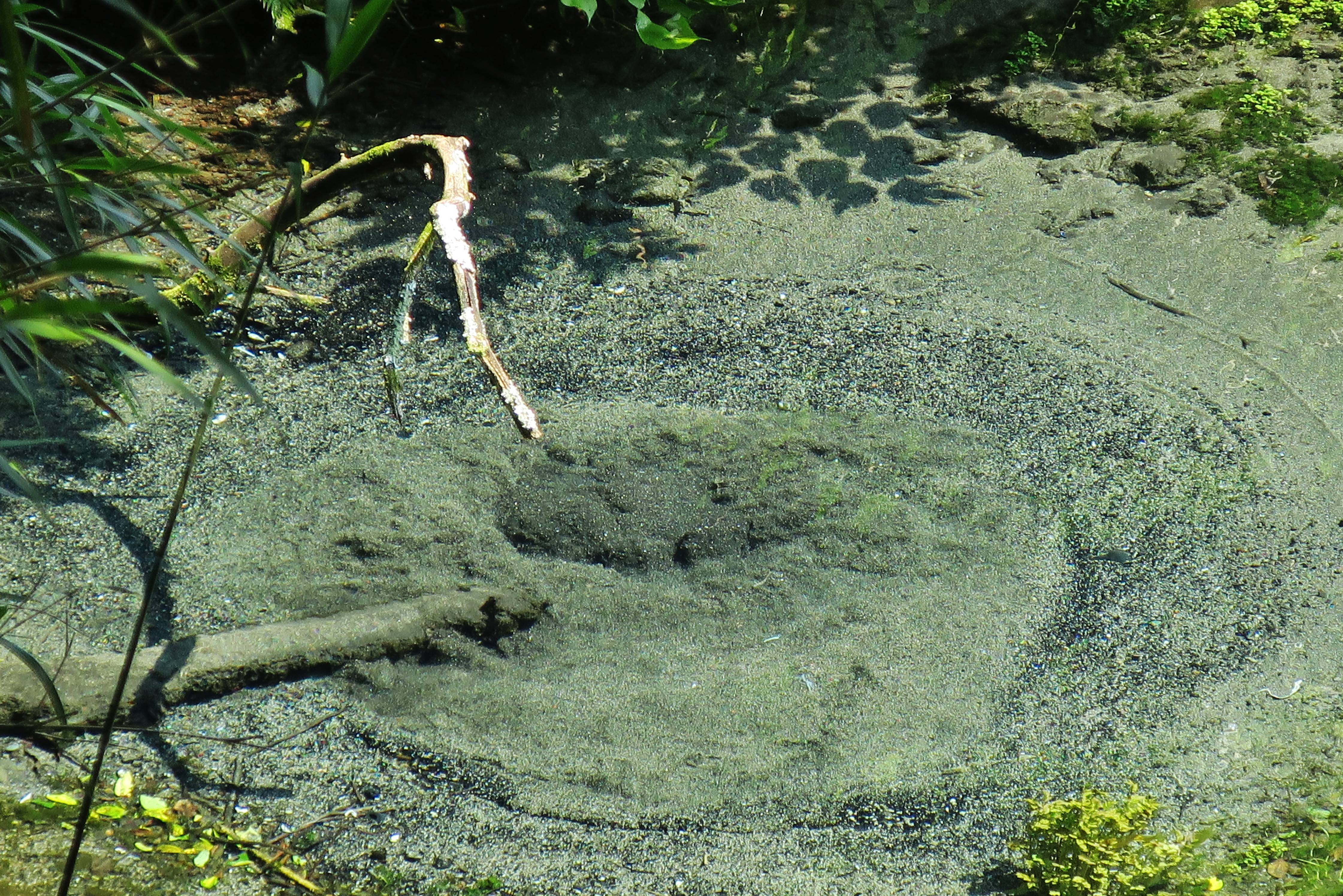 Kakitagawa Park.